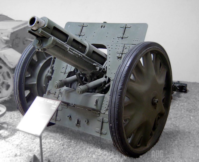 Obice de 75/18 modello 35 on display at the Musée des Blindés in Saumur. The picture taken August 8, 2006.